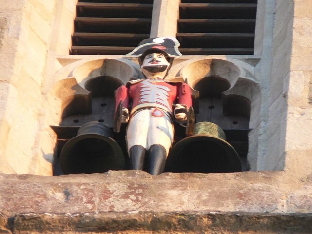 Wimborne Minster: Quarter Jack on the minster This chap on the north side of the western tower strikes the quarter-hour bells.